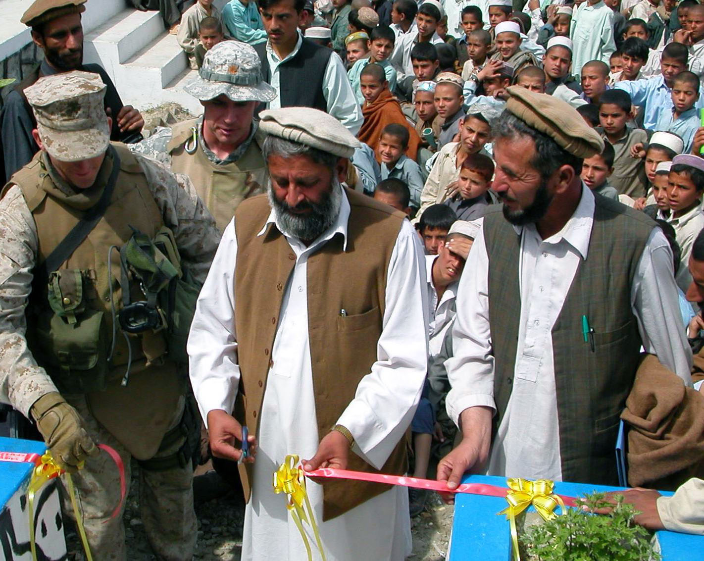 Sayeed Rahman, sub-governor of Pachir wa Agam district in Afghanistan's Nangarhar province, cuts the ribbon at the reopening ceremony of Agam High School on March 25. At left is Marine Captain Bart Battista, commander of B Company, 1st Battalion, 3rd Marine Regiment. Behind him is Army Maj. Dennis C. Edwards, the battalion civil affairs officer. At right is Nu Salaam, the president of Agam High School. Photo by Capt. Dan Huvane, USMC